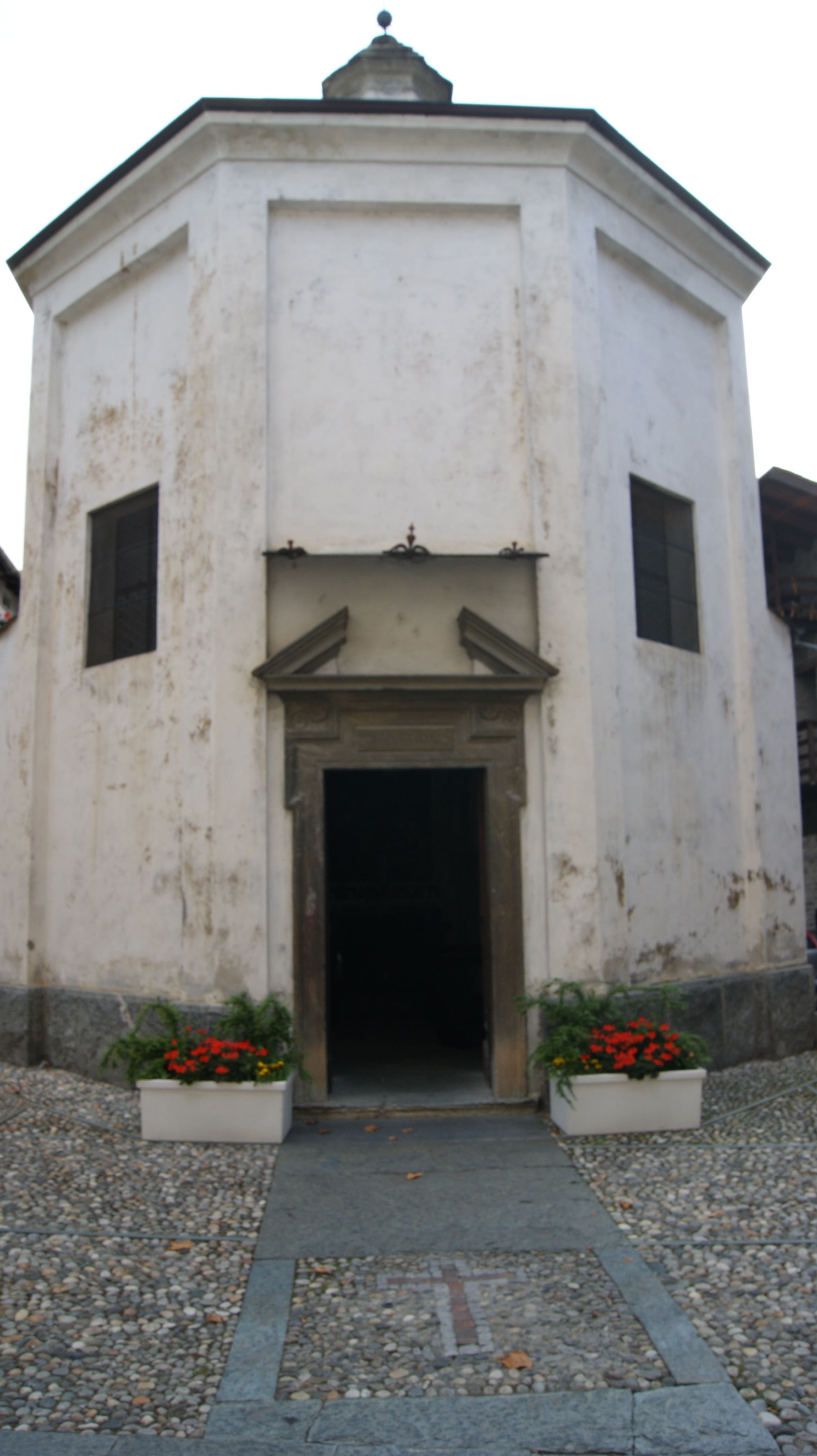 Church of Mariano Spasmo (Chiesa Mariano Spasmo) in Tirano.